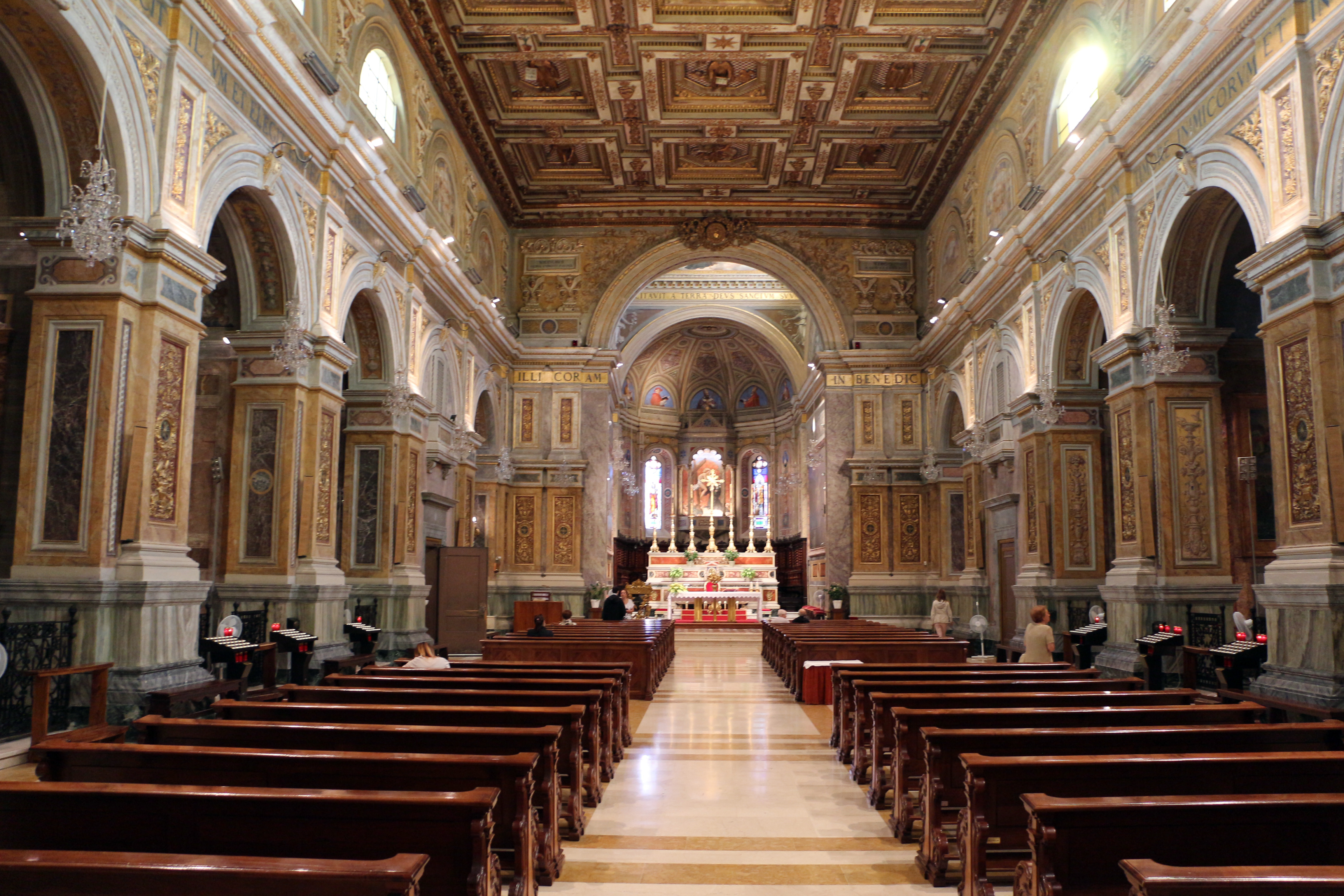 Basilica di San Nicola da Tolentino (Tolentino)